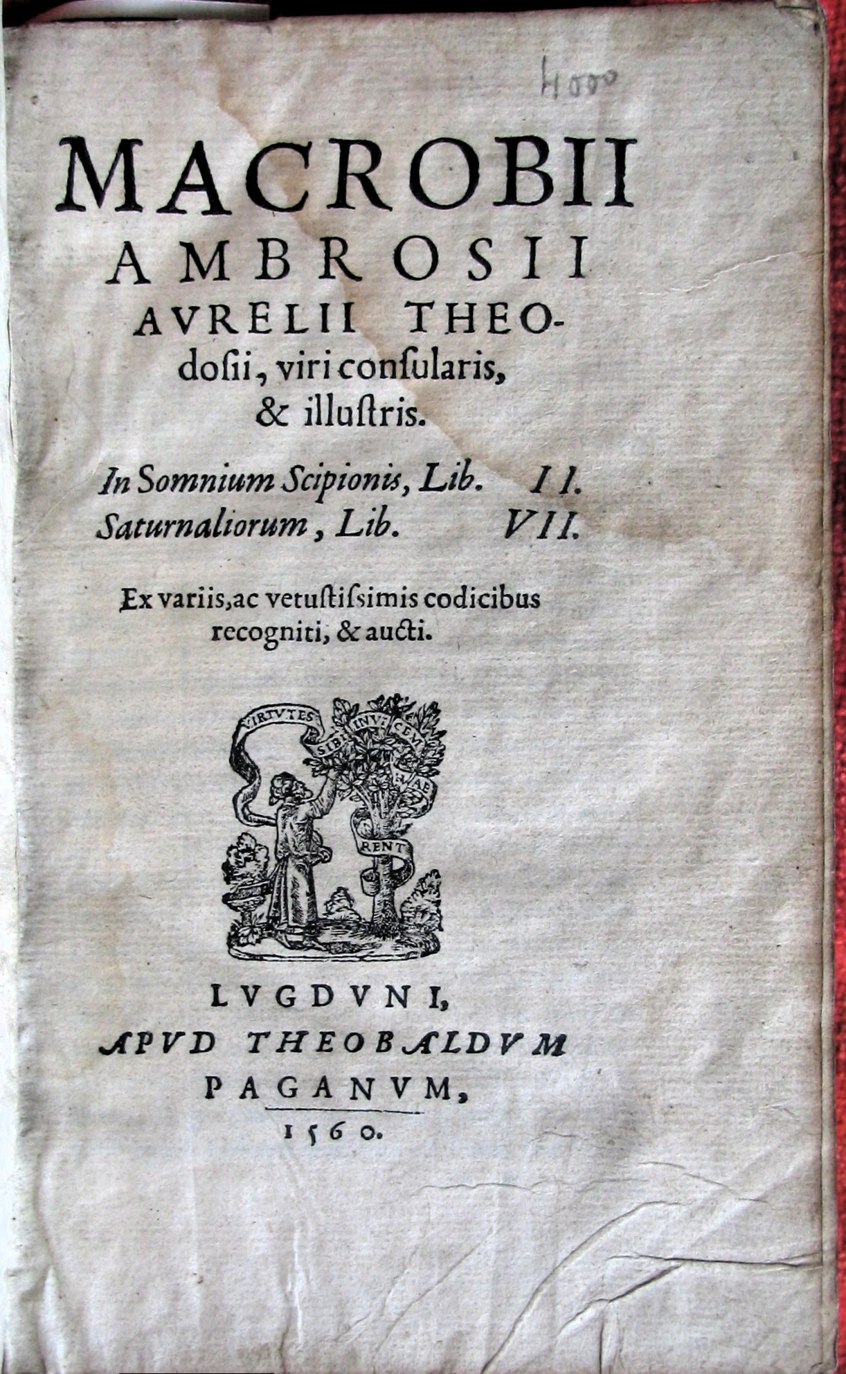 Title page of a humanistic edition of the works of Macrobius: Commentary on "The Dream of Scipio" and Saturnalia. Paganum: Lyon, 1560